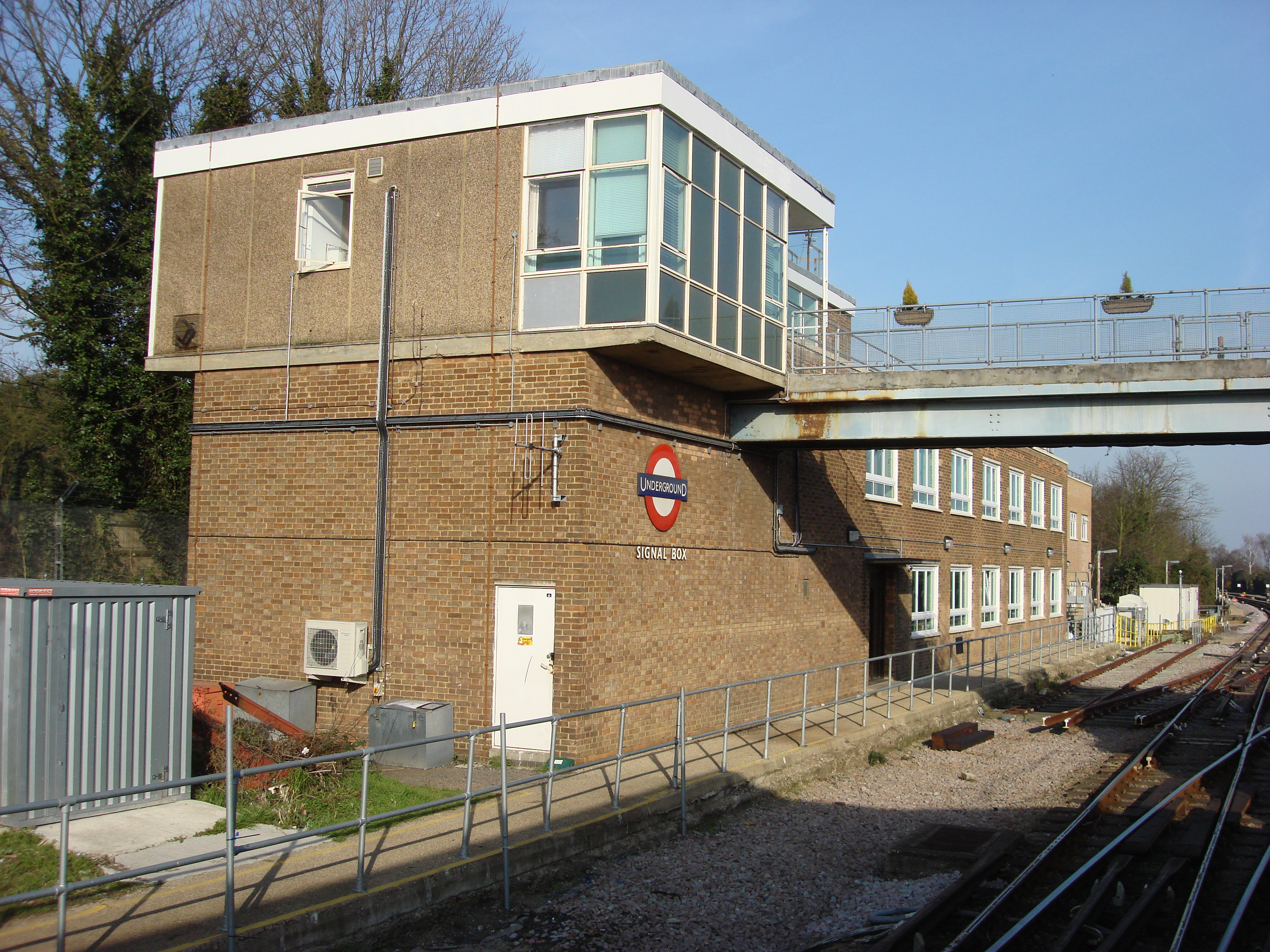 Upminster railway station